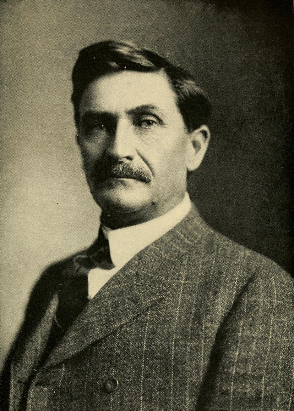 Portrait of Pat F. Garrett from The Story of the Outlaw by Emerson Hough, 1907